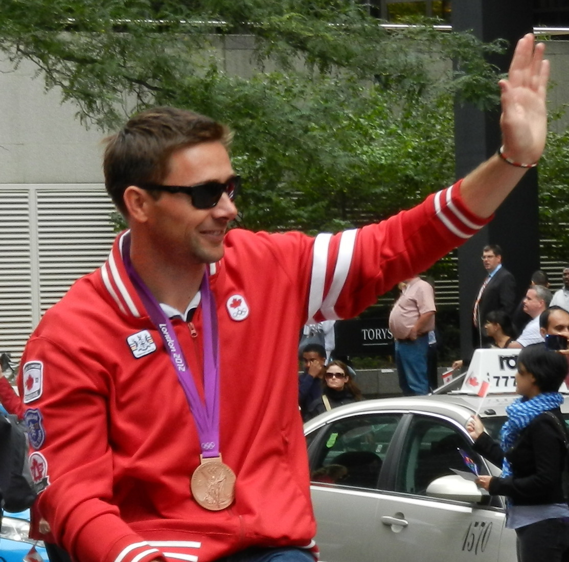 Mark Oldershaw at the 2012 Olympic Heroes Parade Toronto, ON, 2012-09-21